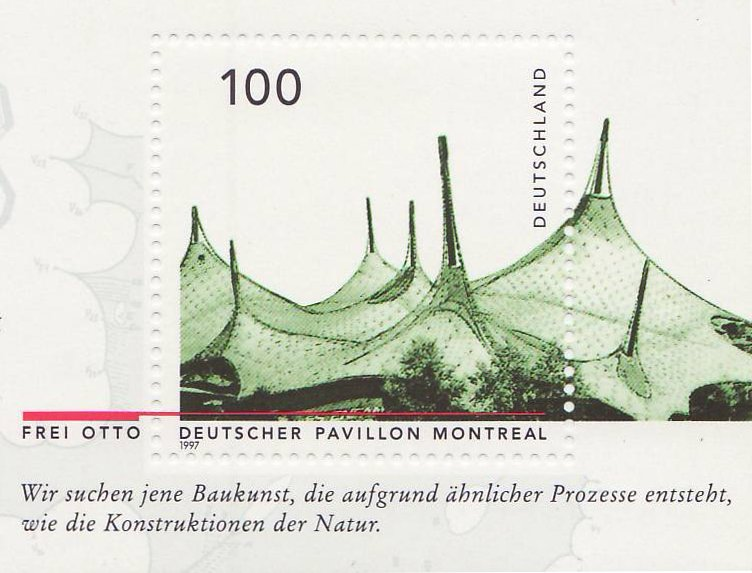 German pavilion at Expo 67, Montreal